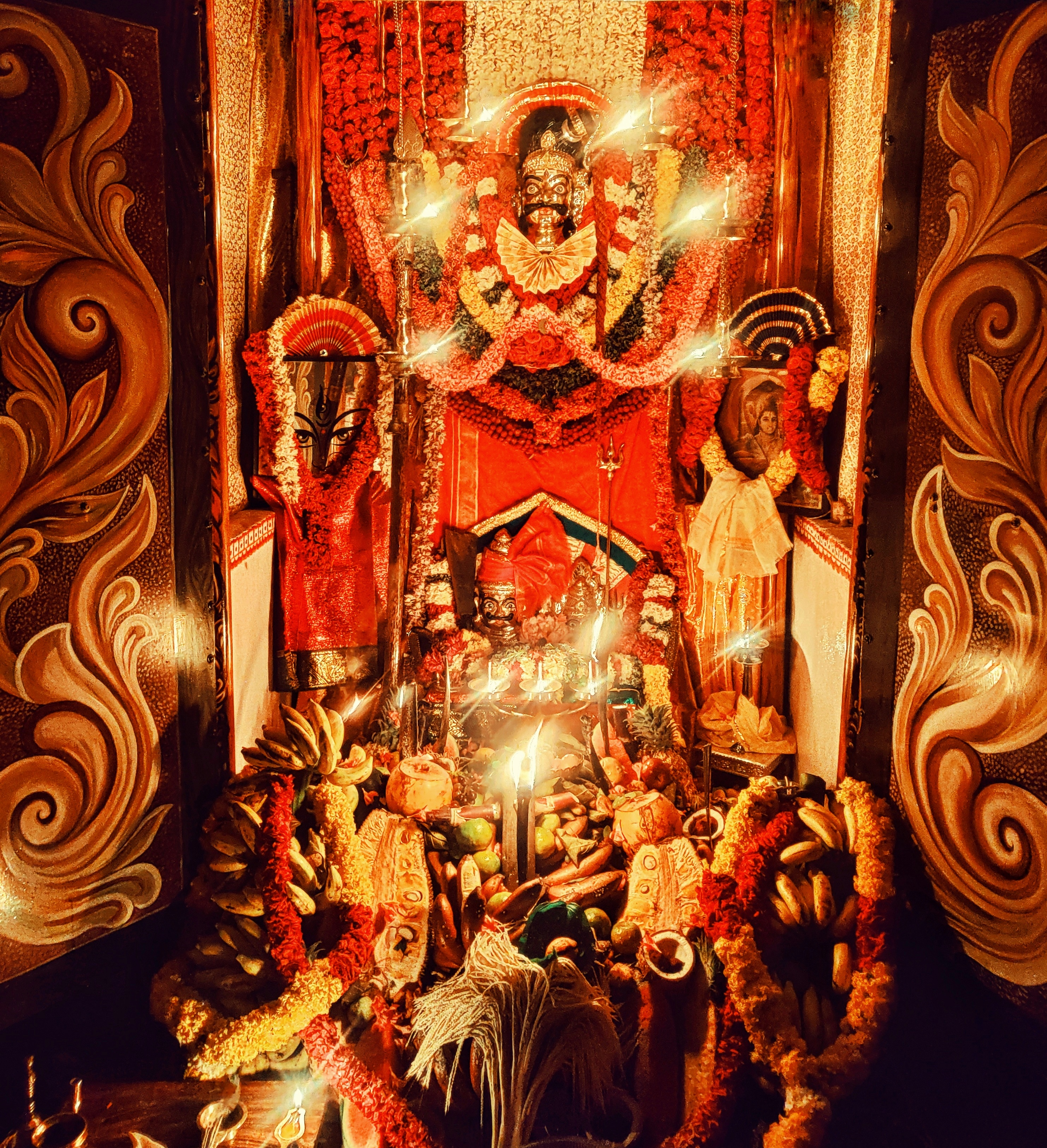 Shiva Sudalai Madansammy alangaram, pattom, Trivandrum, kerala